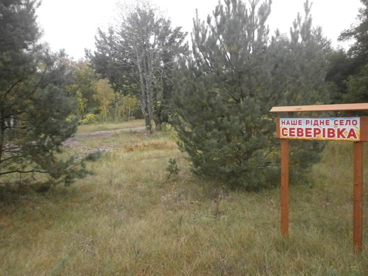 Северіва наше село